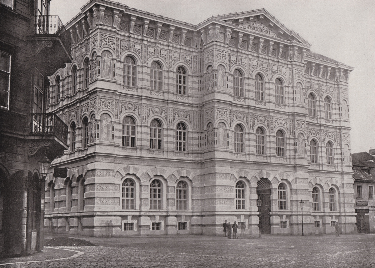 Former School for girls, Prague, Vodičkova 22, architect Vojtěch Ignác Ullmann (1822-1897)